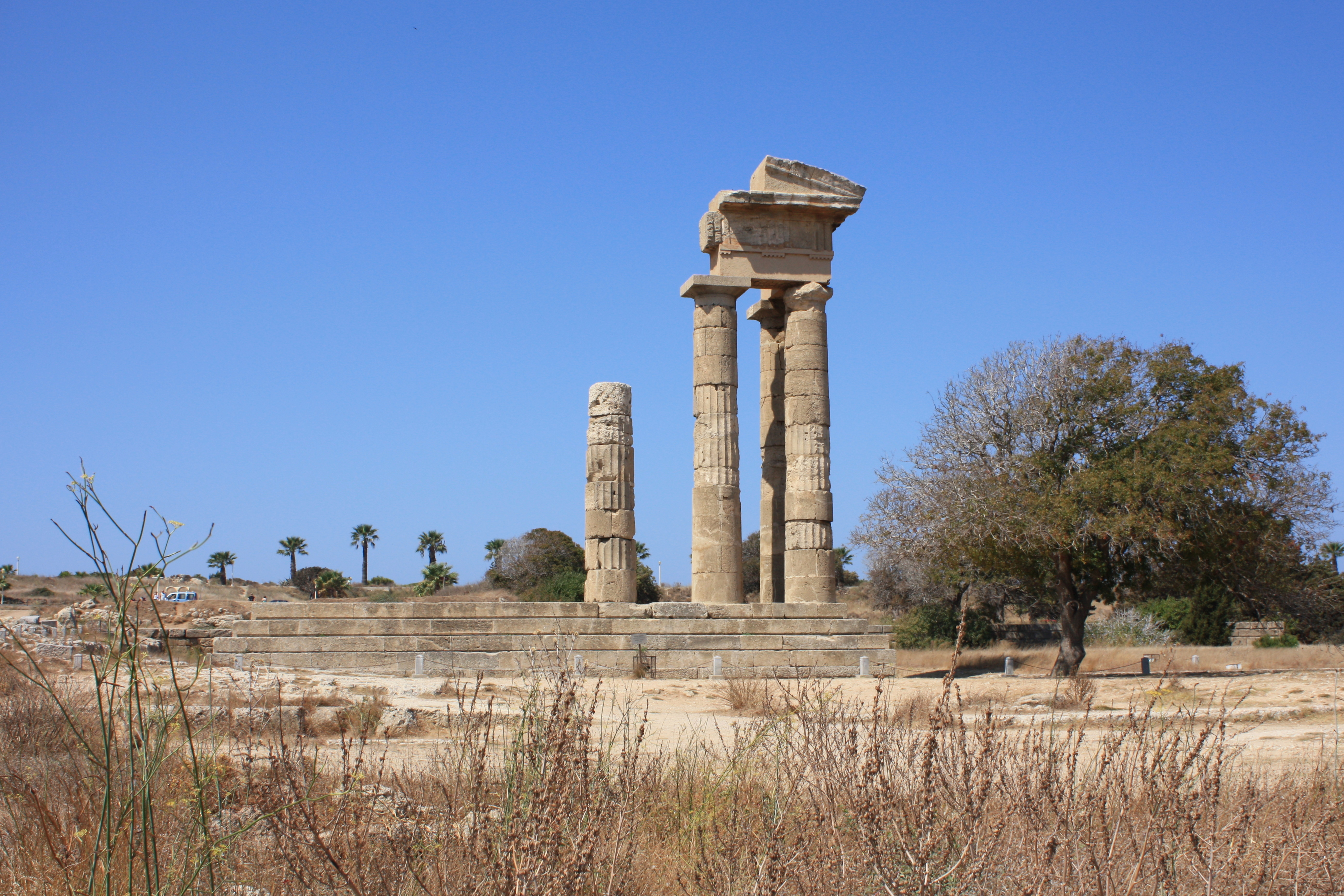 Temple of Apollo Pythios, Acropolis of Rhodes, Greece.